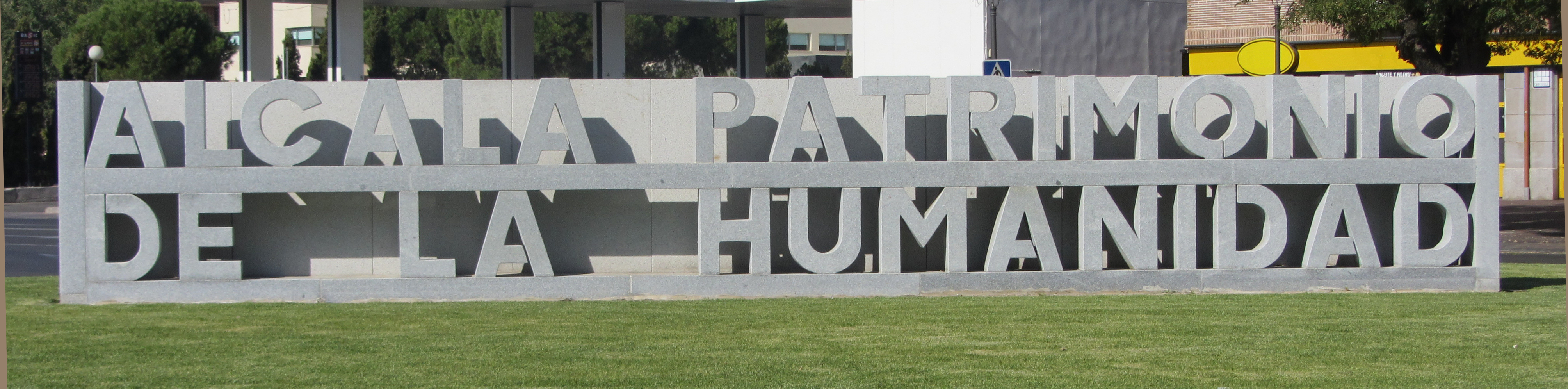 Monument dedicated to the commemoration of Alcalá de Henares (Community of Madrid - Spain) as a World Heritage Site.